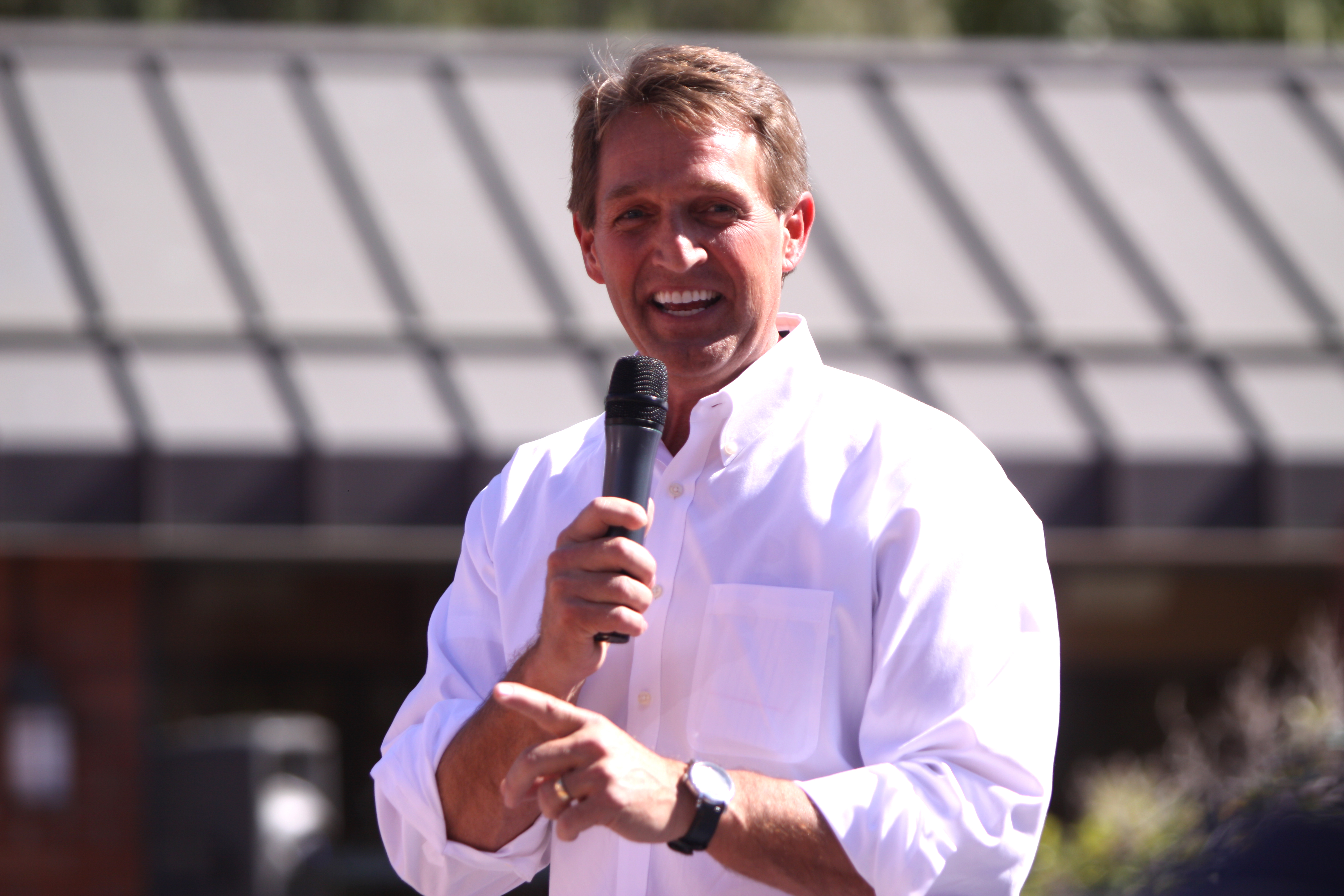 Jeff Flake at a rally for Mitt Romney in Tempe, Arizona.